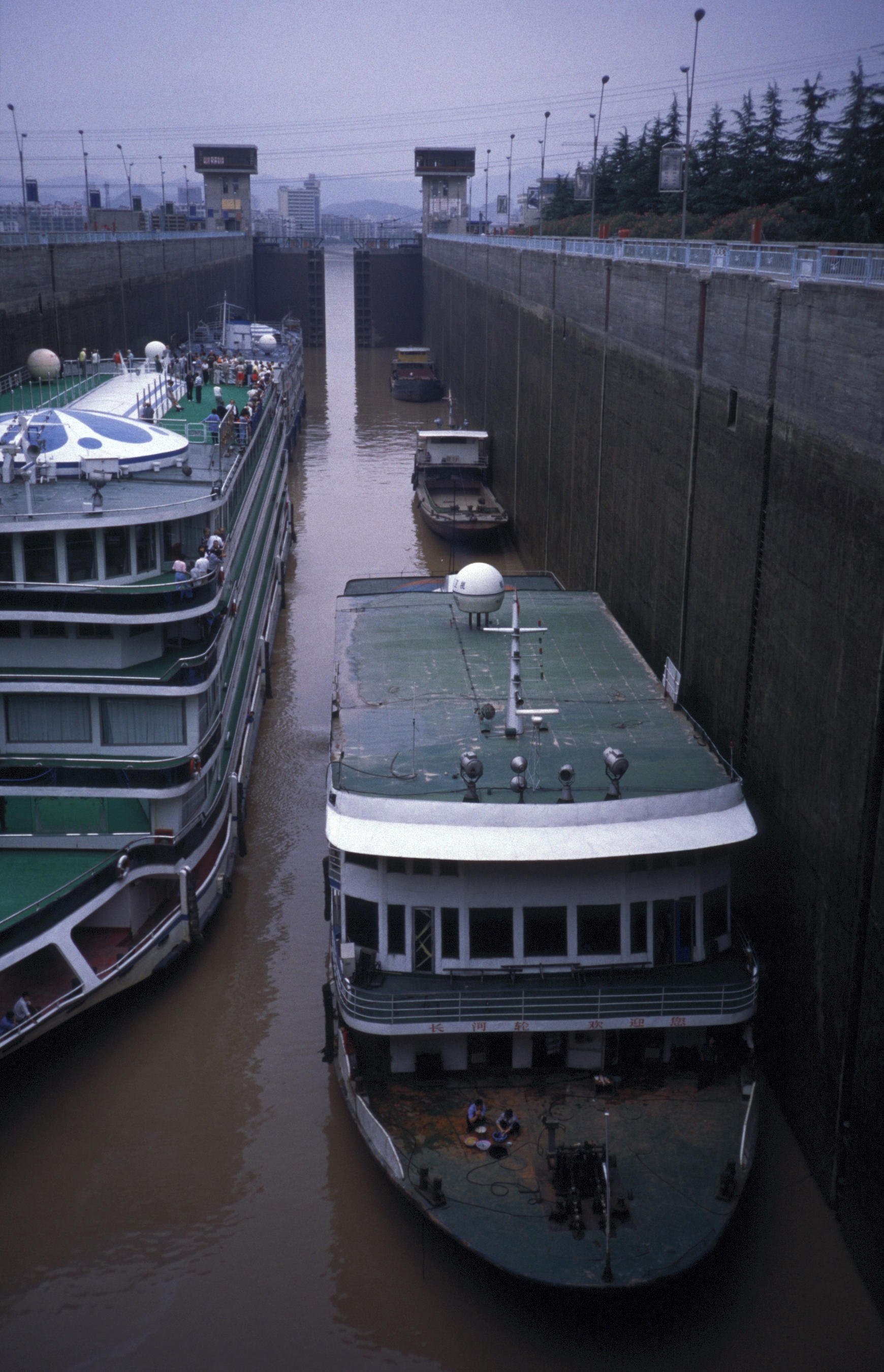 Lock at Gezhouba Dam in Yichang in Hubei Province, China